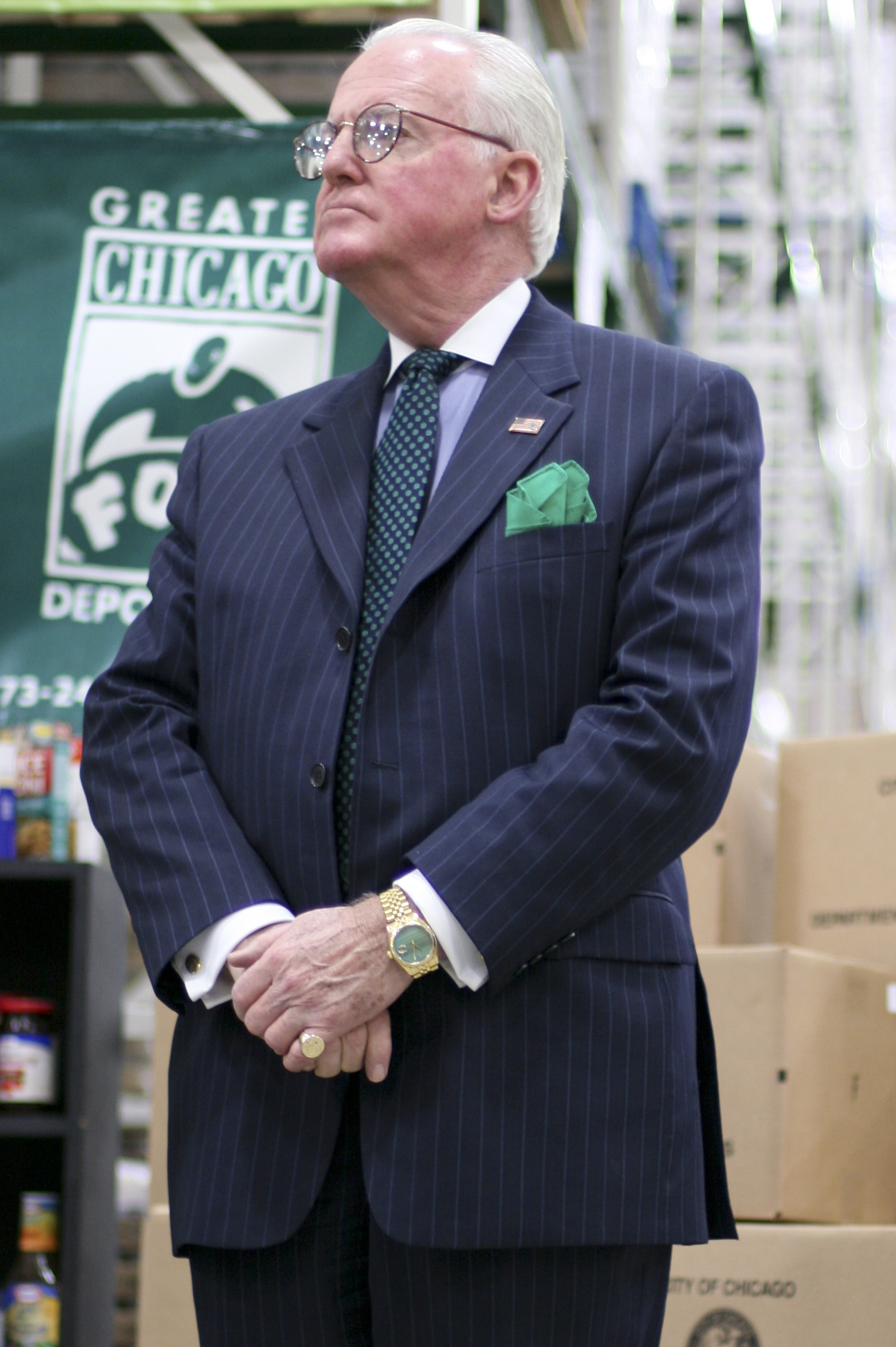 Chicago Alderman Edward M. Burke at the Greater Chicago Food Depository in the near southwest-side Archer Heights neighborhood on November 24, 2009